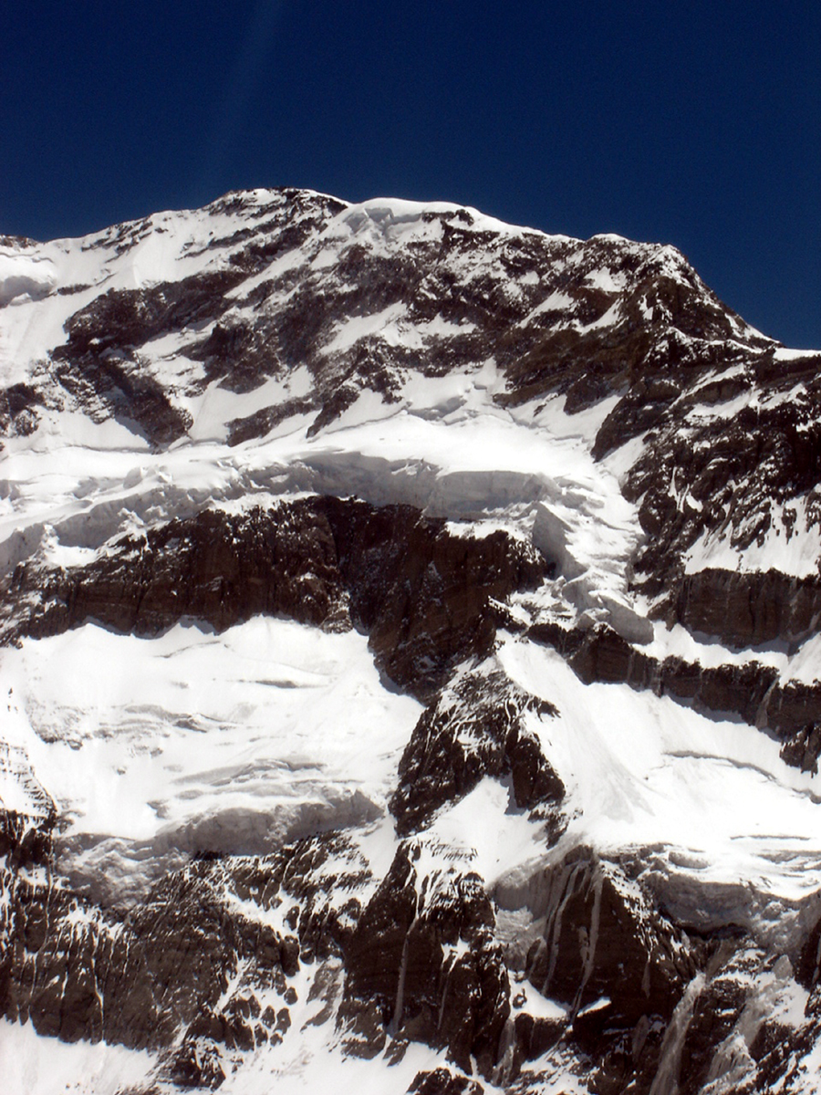 Aconcagua summit, zoom view from helicopter, ARG